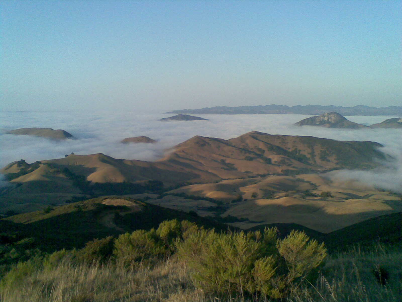 This just looks so inviting. Please come and ride with me.